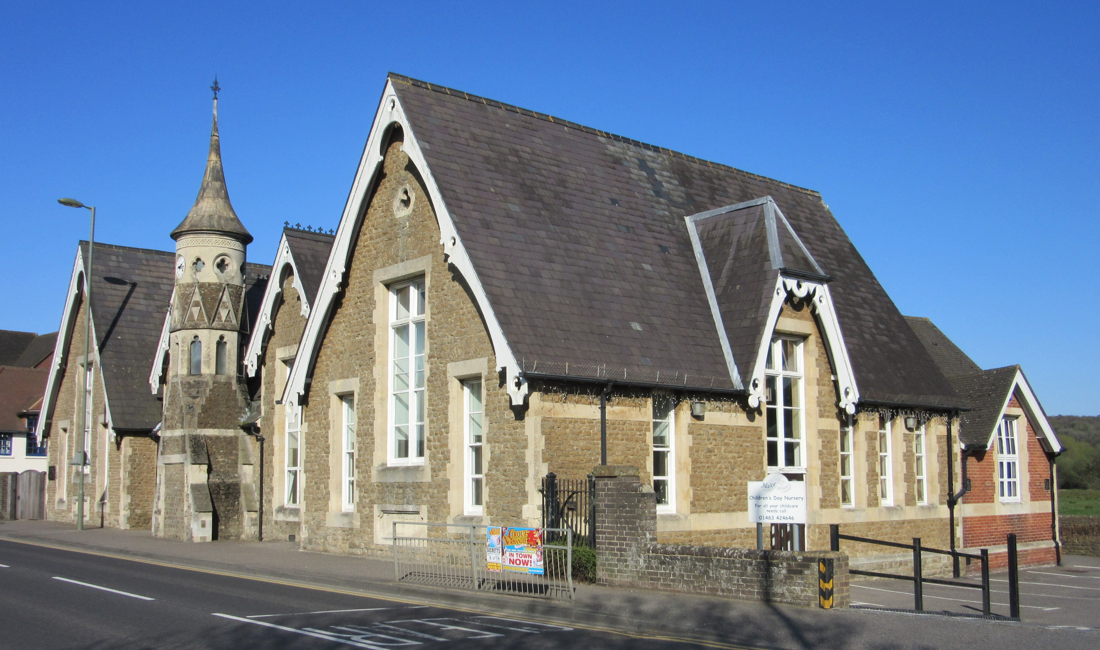 The Grade II-listed former British School of 1872 on Bridge Street, Godalming, Waverley Borough, Surrey, England.